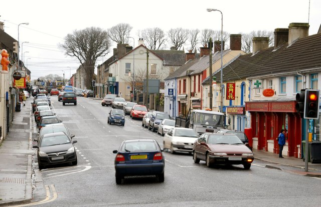 Main Street, Saintfield See 163402. Despite its proximity to Belfast, Saintfield is still the small country town with butcher's, baker's and hardware shops, farmers with tractors, two banks and a post office. The view is towards Ballynahinch and Lisburn. See also 1456469.